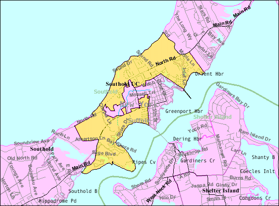 U.S. Census 2000 reference map for Greenport West